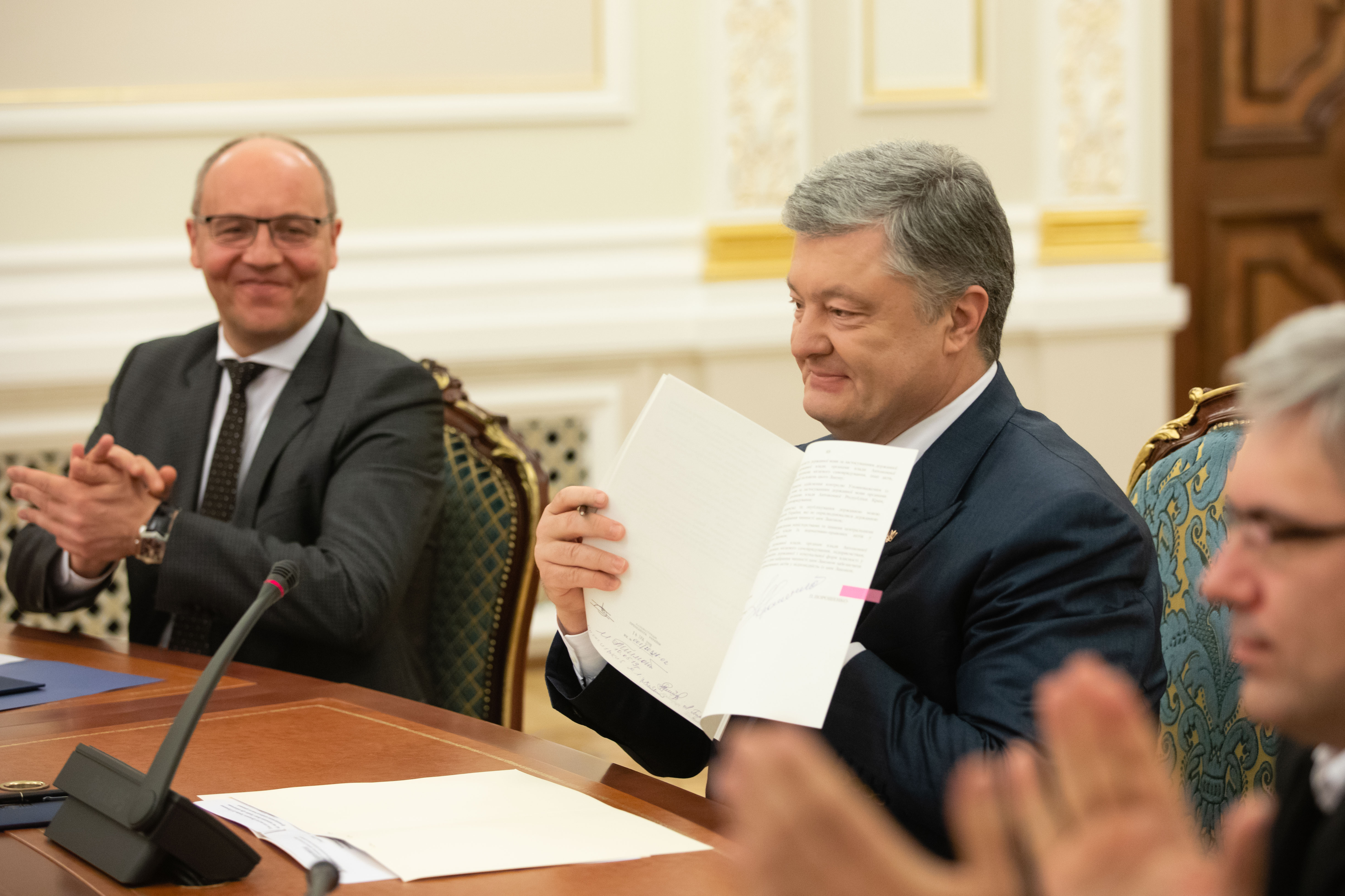 Poroshenko showing the law "On provision of the functioning of the Ukrainian language as the State language" he signed